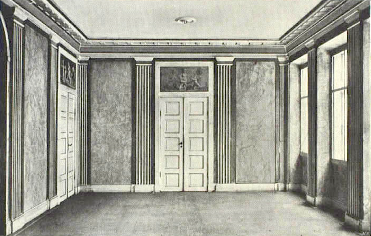 Print showing the Zinn family's music room at Kvæsthusgade 3 in Copenhagen, Denmark.